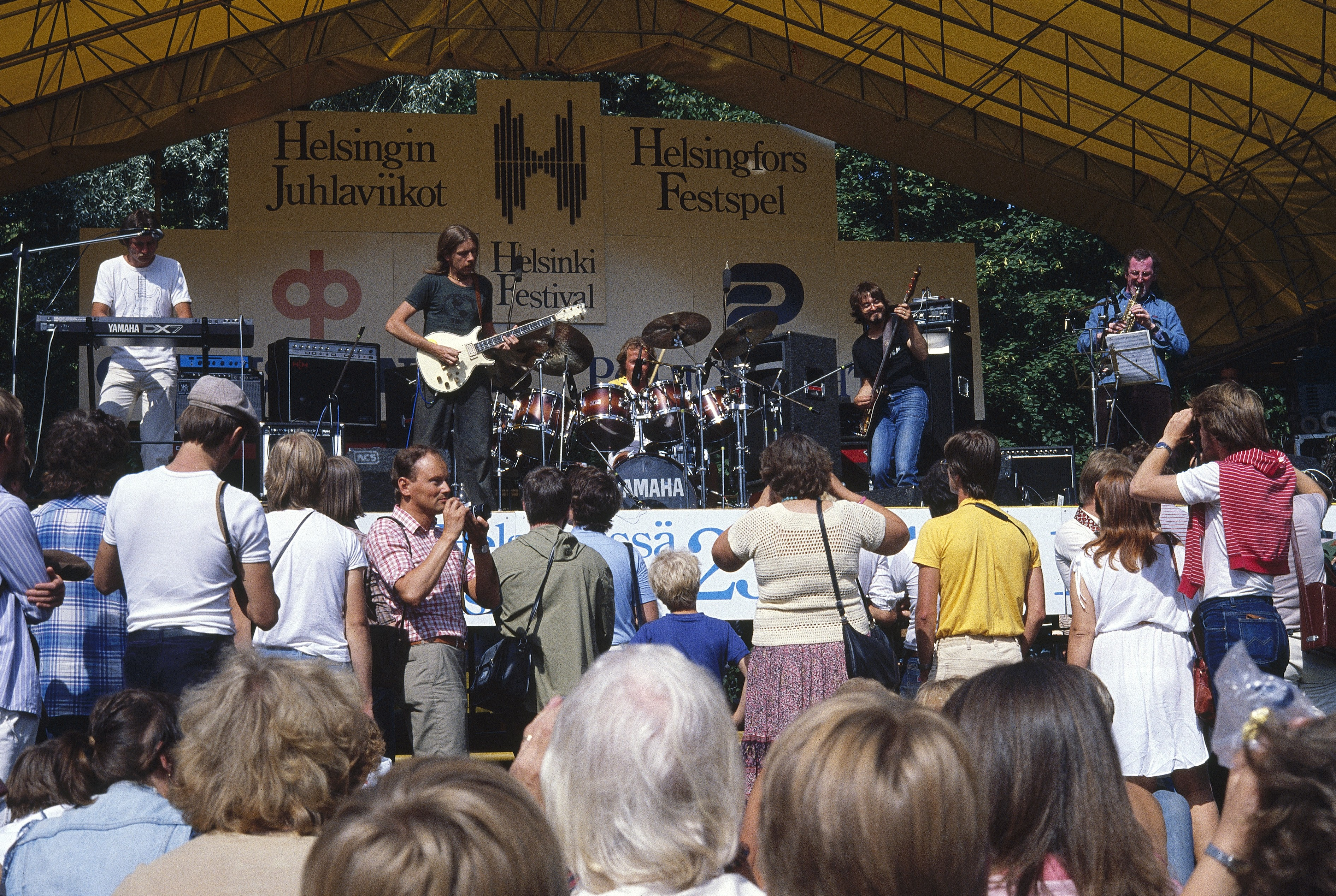 Photograph of the Finnish jazz/rock group Tasavallan Presidentti performing, presumably in 1983, or 1983–1989, at Helsingin Juhlaviikot festival.